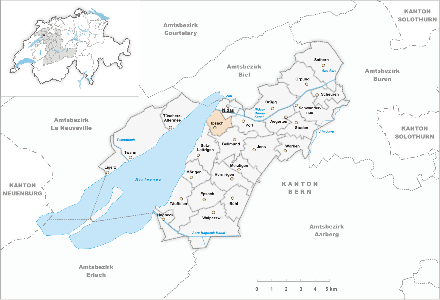 Municipality Ipsach